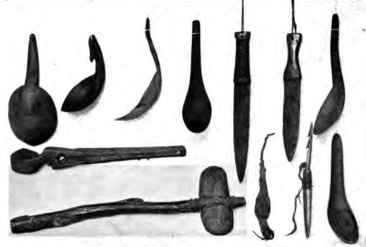 Artifacts of various tools found in Oregon